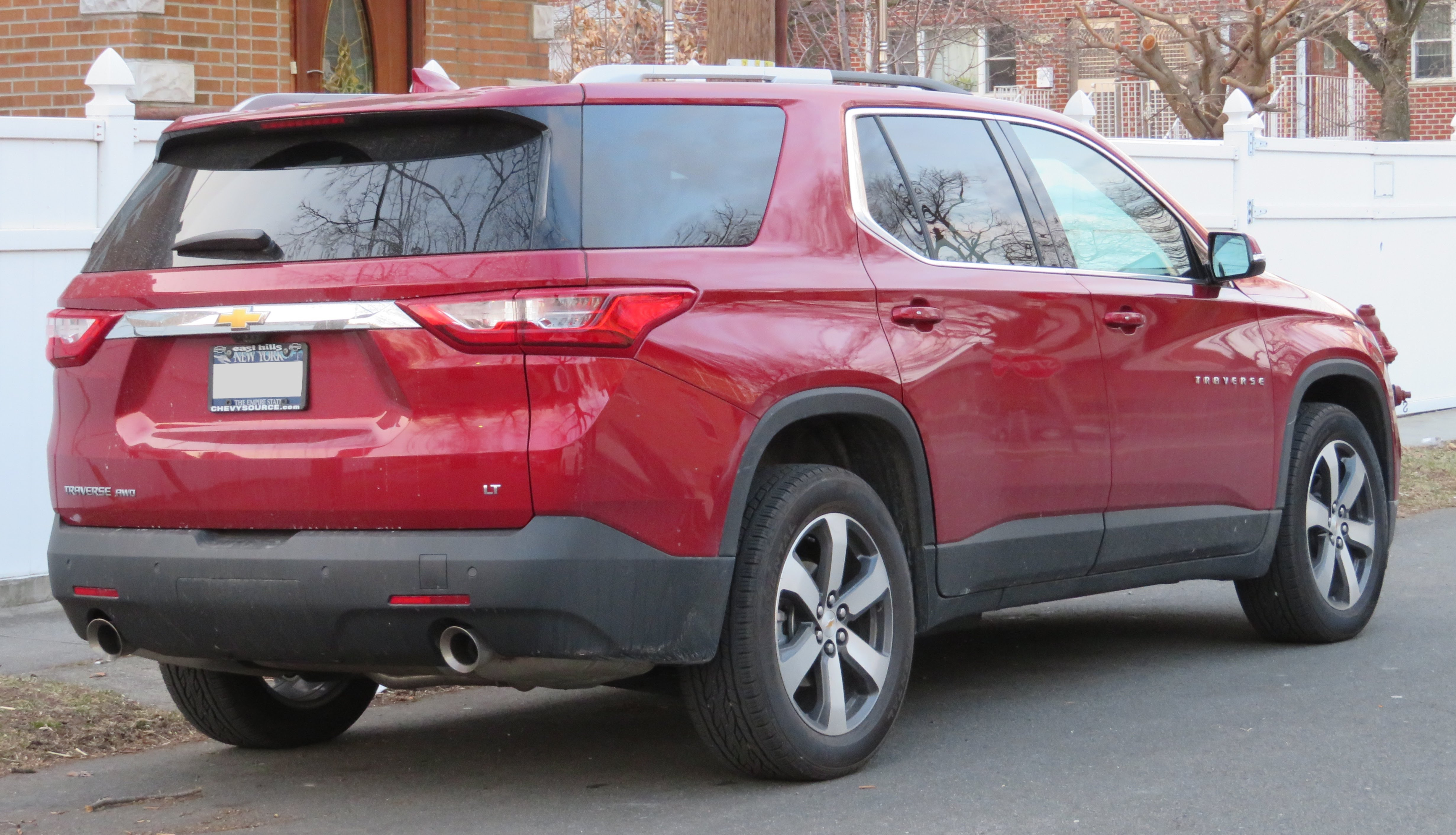 In Queens, New York